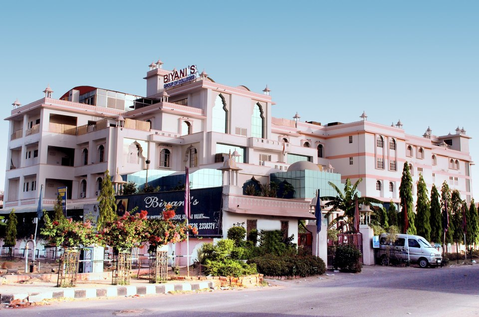 Fastest Growing College for Biyani Group of Colleges.